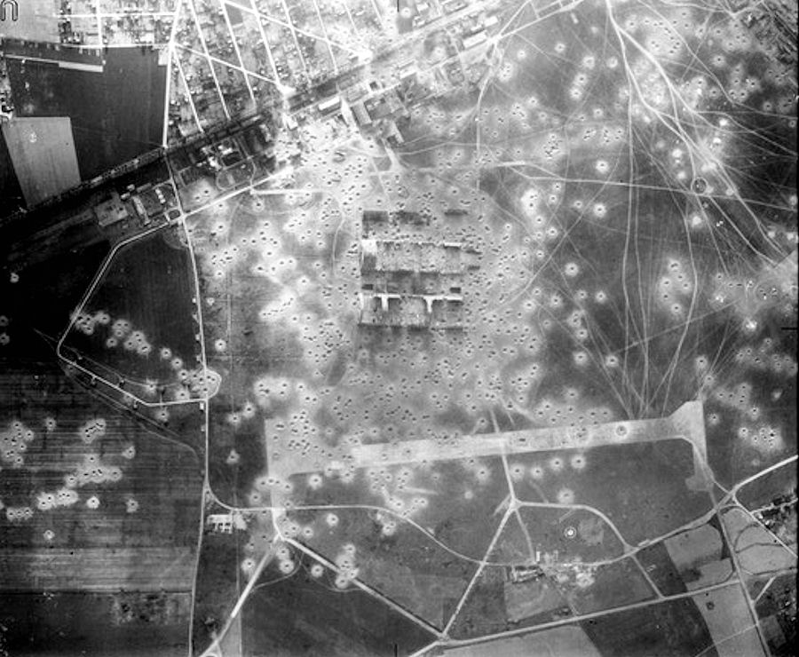 Aeroport de Paris-Orly - 6 June 1944